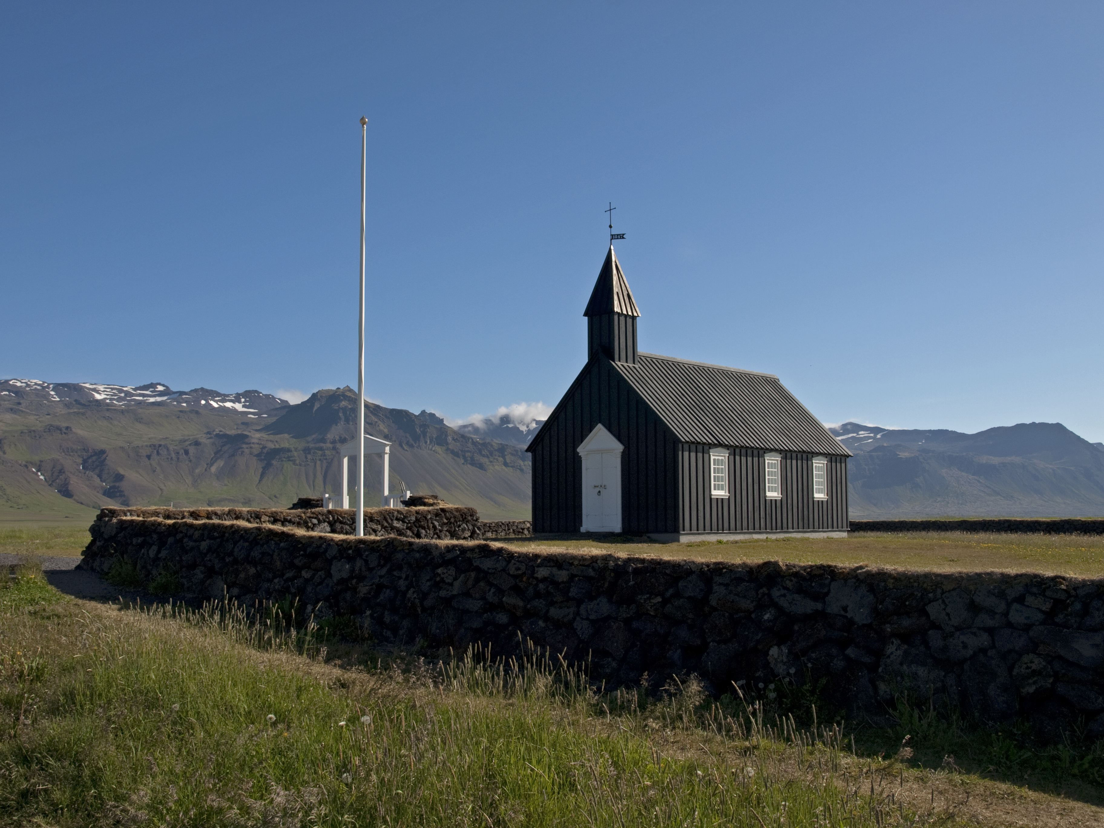 Búðakirkja, front view, Búðir